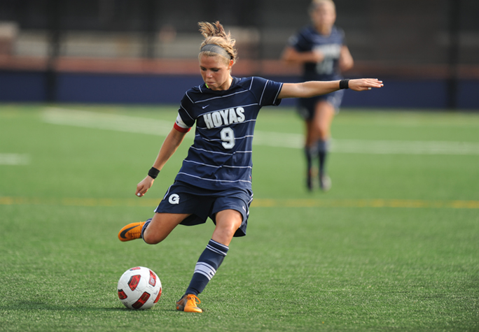 Ingrid Wells, September 2011